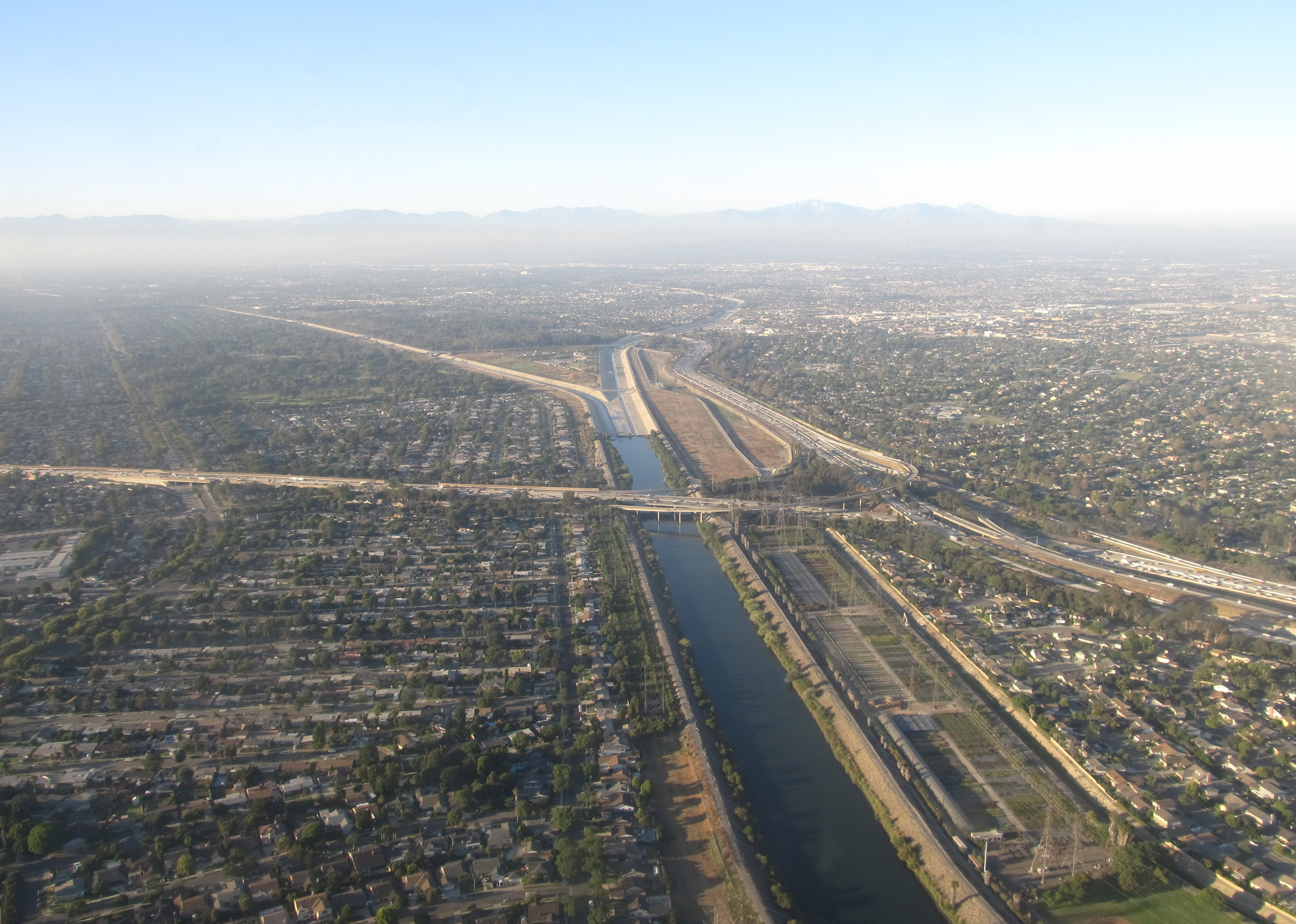 Cropped and rotated original file, also removed plane window smudge. Original file description: Coyote Creek is a principal tributary of the San Gabriel River in northwest Orange County, southeast Los Angeles County, and southwest Riverside County in the U.S. state of California. It drains a land area of roughly 41.3 square miles (107 km2) covering five major cities, including Brea, Buena Park, Fullerton, La Habra, and La Palma. Some major tributaries of the creek in the highly urbanized watershed include Brea Creek, Fullerton Creek and Carbon Creek. The mostly flat creek basin is separated by a series of low mountains, and is bounded by several small mountain ranges, including the Chino Hills, Puente Hills and West Coyote Hills.